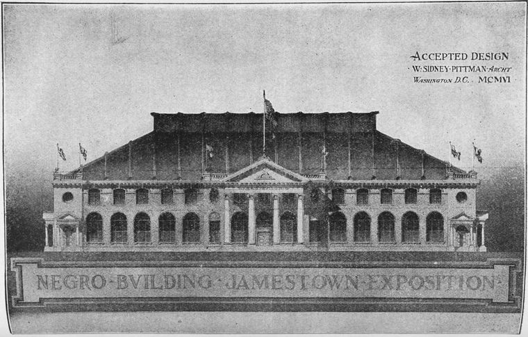 Drawing of the Negro Building, Jamestown Exposition, Jamestown, Virginia, 1911